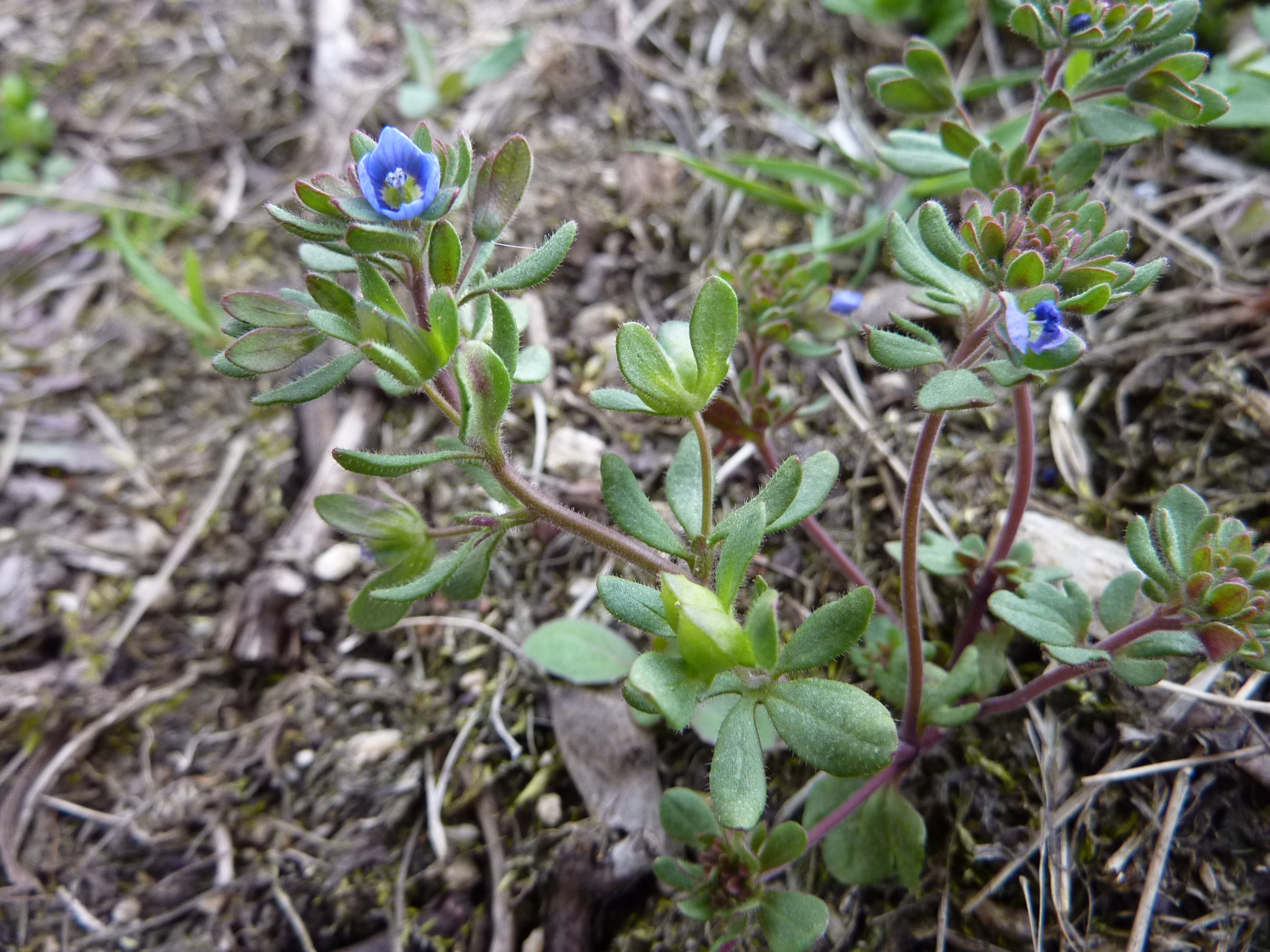 Veronica dillenii in first zone of Podyjí National Park in the Czech Republic